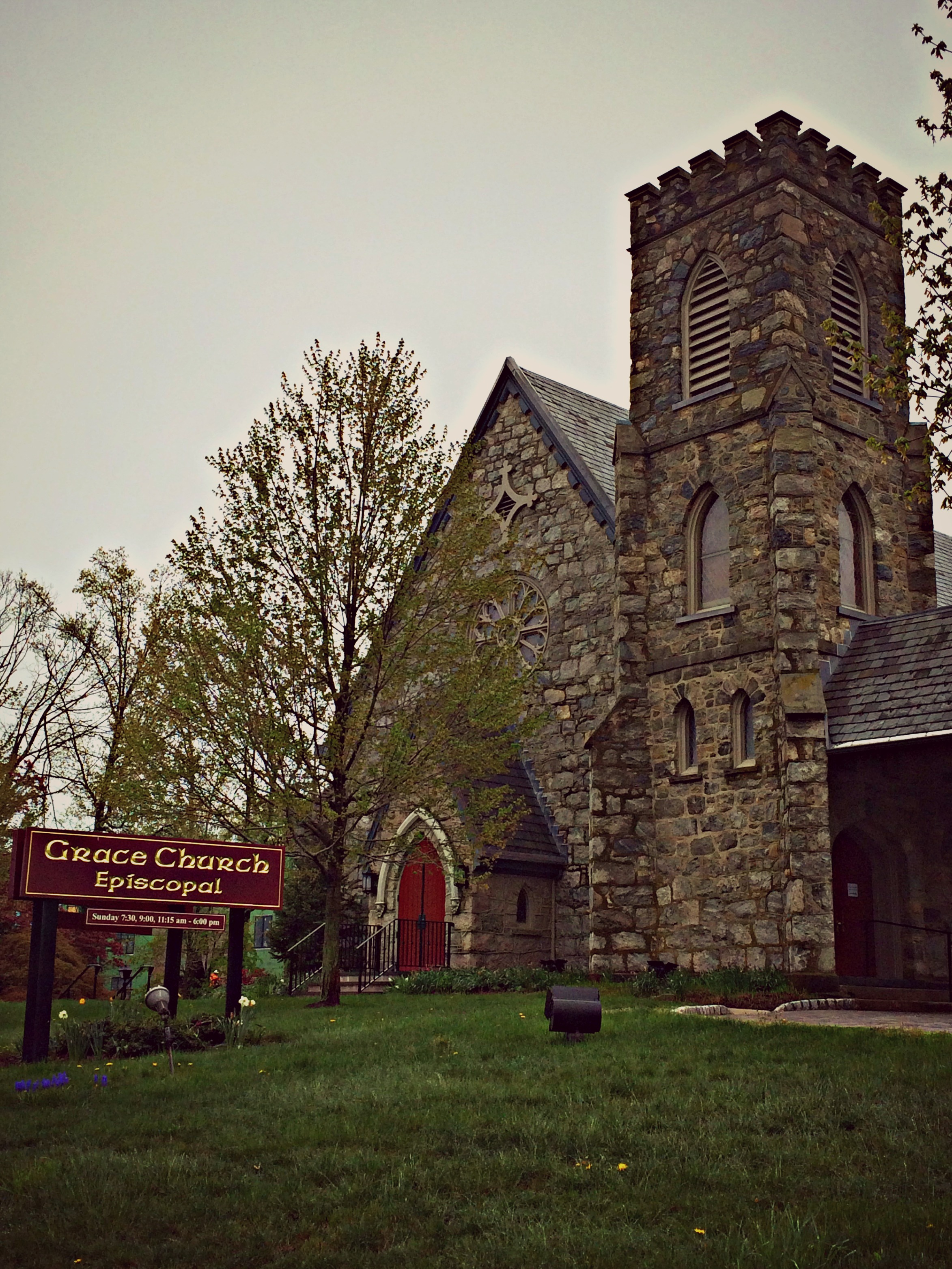 Grace Episcopal Church Madison, New Jersey in April